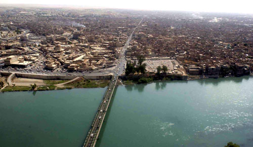 The Tigris River as it flows through Mosul, Iraq, as seen from a UH-60 Blackhawk from the 101st Airborne Division (Air Assault), 9th Aviation Battalion, A Company, June 16, 2003 during Operation Iraqi Freedom. U.S. Army photo by Sgt. Michael Bracken.